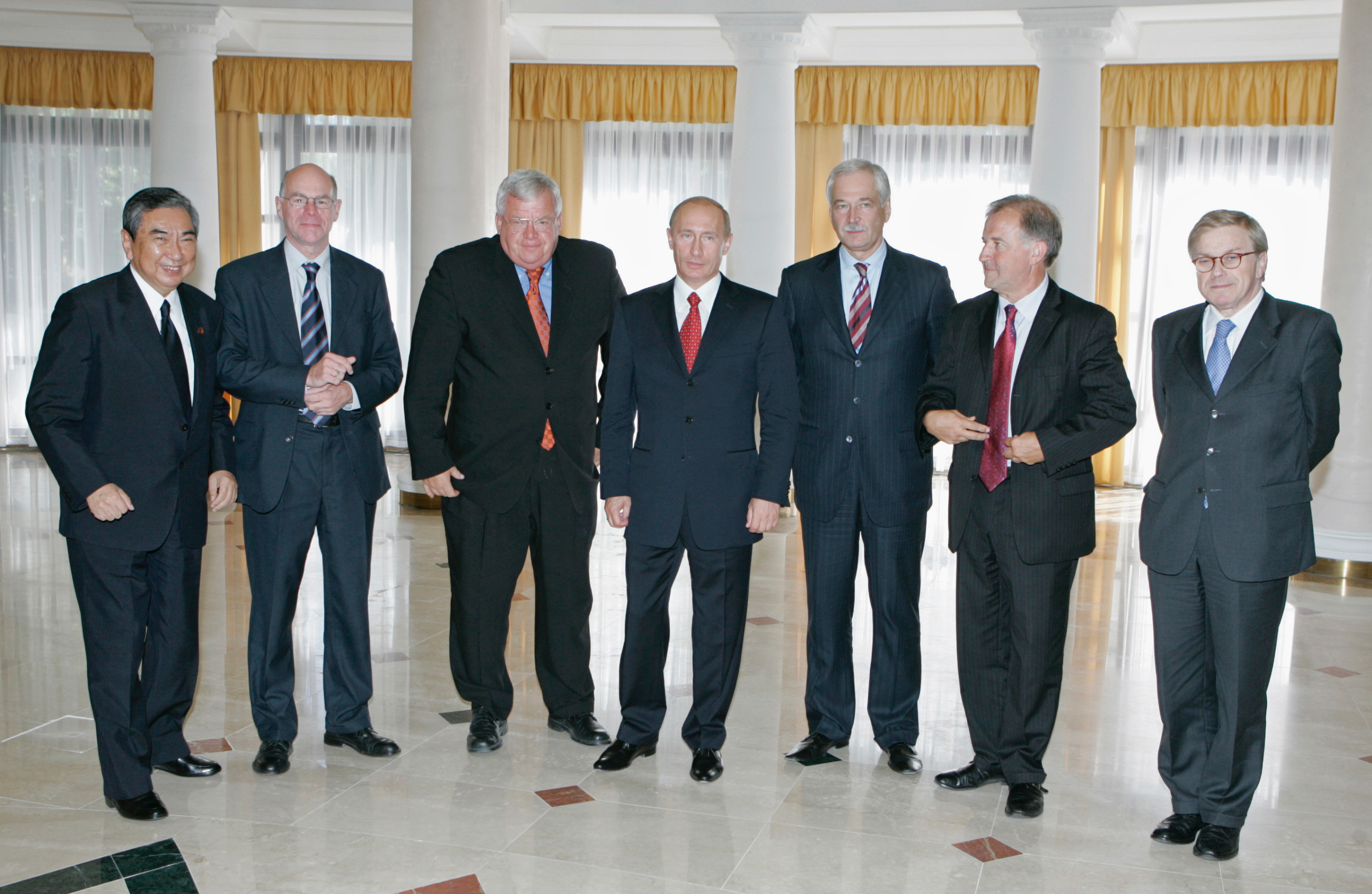 Yohei Kono, speaker of the House of Representatives of the Japanese Parliament; Norbert Lammert, president of the Bundestag of the German Parliament; J. Dennis Hastert, speaker of the House of Representatives of the U.S. Congress, Vladimir Putin, Russian president; Boris Gryzlov, Russian State Duma speaker; Yves Bur, vice-president of the French National Assembly; Pierluigi Castagnetti, first deputy head of the Italian Chamber of Deputies (left to right); having their family photo taken at the Rus sanatorium, Sochi.